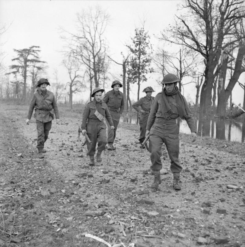 The British Army in North-west Europe 1944-45 A reconnaissance patrol from 1st Suffolk Regiment return to the lines during operations to capture a castle on the banks of the Maas near Geijsteren, 1 December 1944.